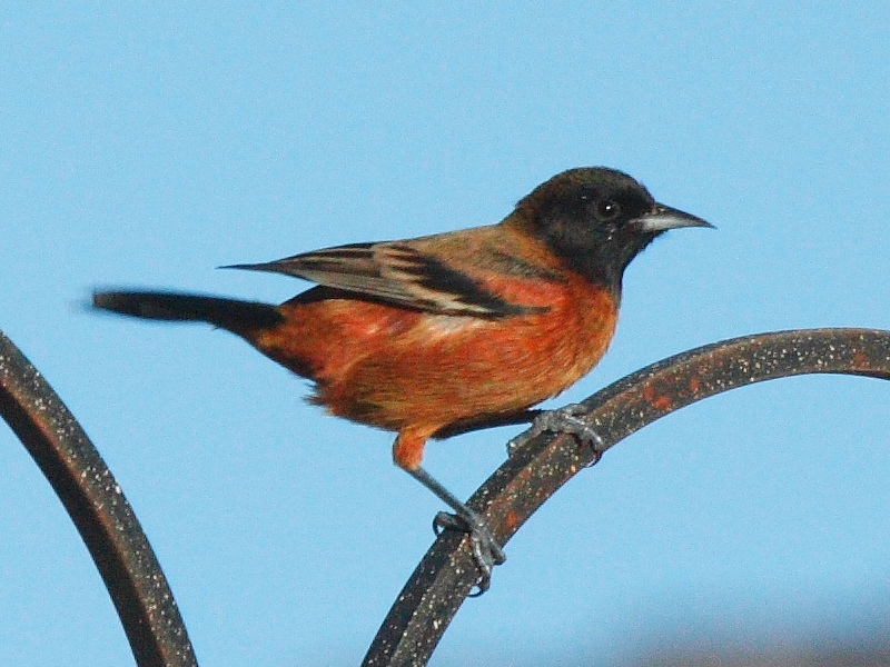 Orchard Oriole (Icterus spurius)